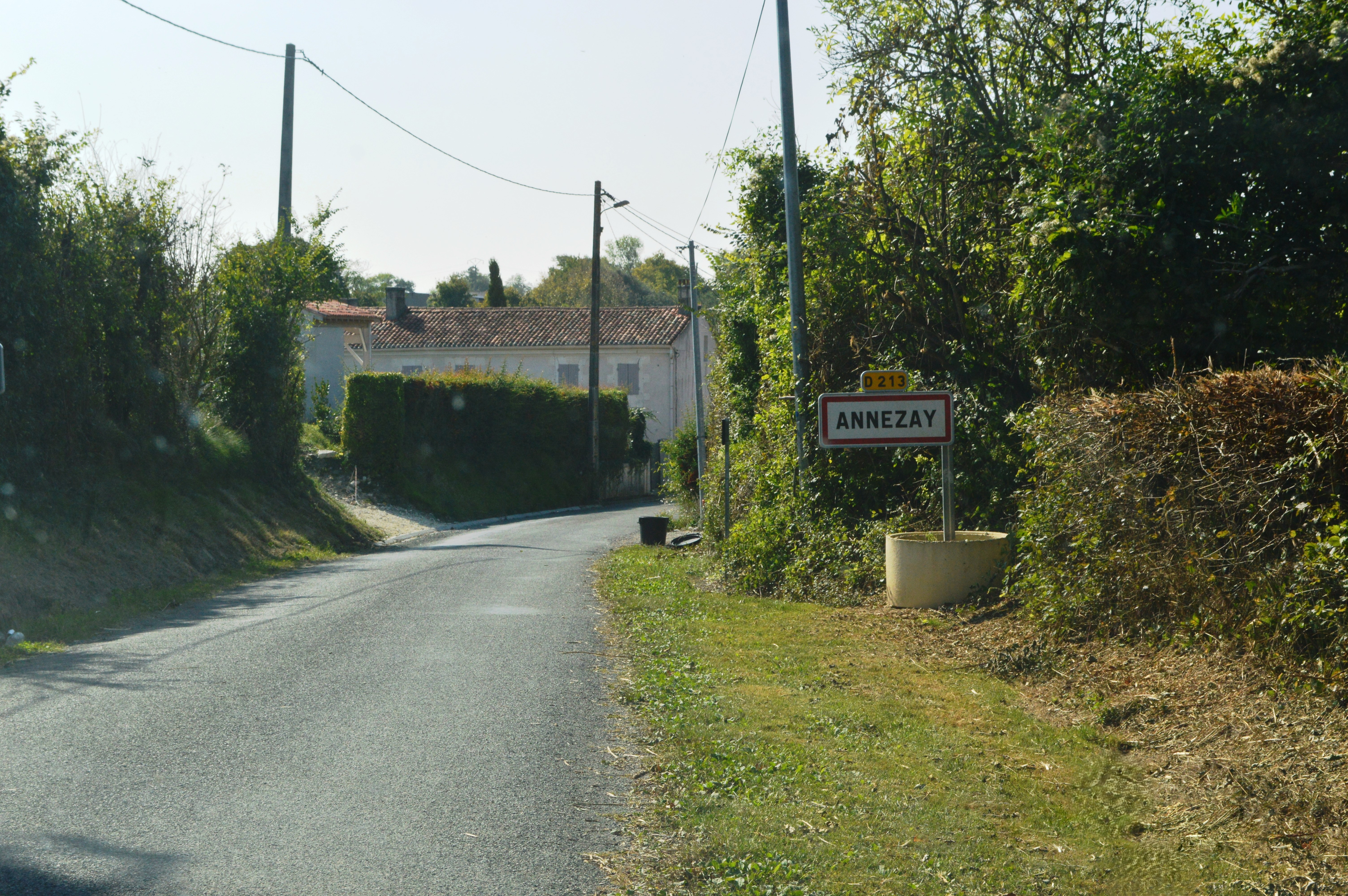 The entry to Annezay